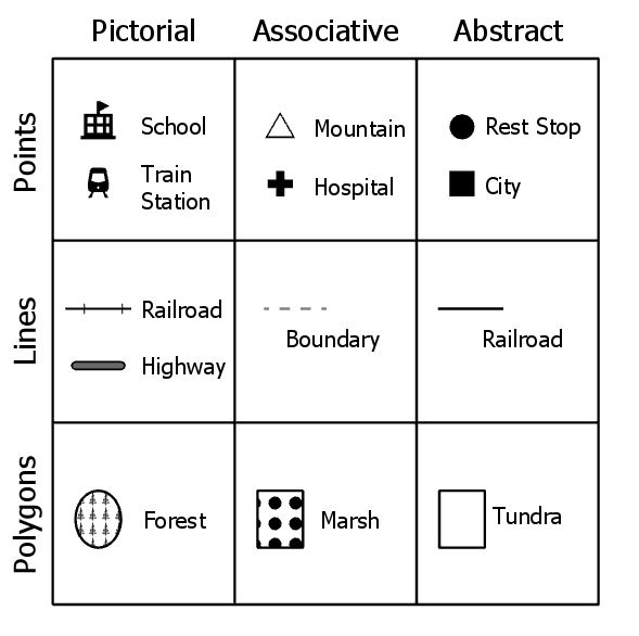 The three categories of cartographic symbol shapes.